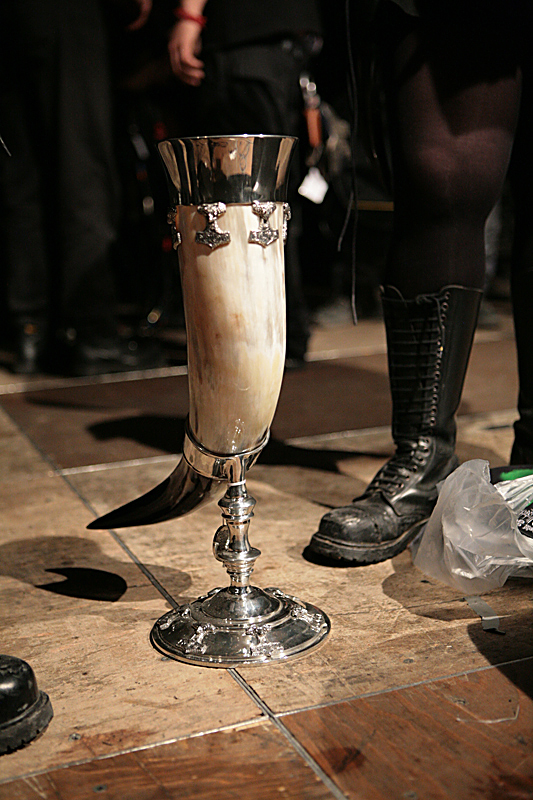 The Horn with silver-decoration, which could be won at the Ragnarök-Festival 2008